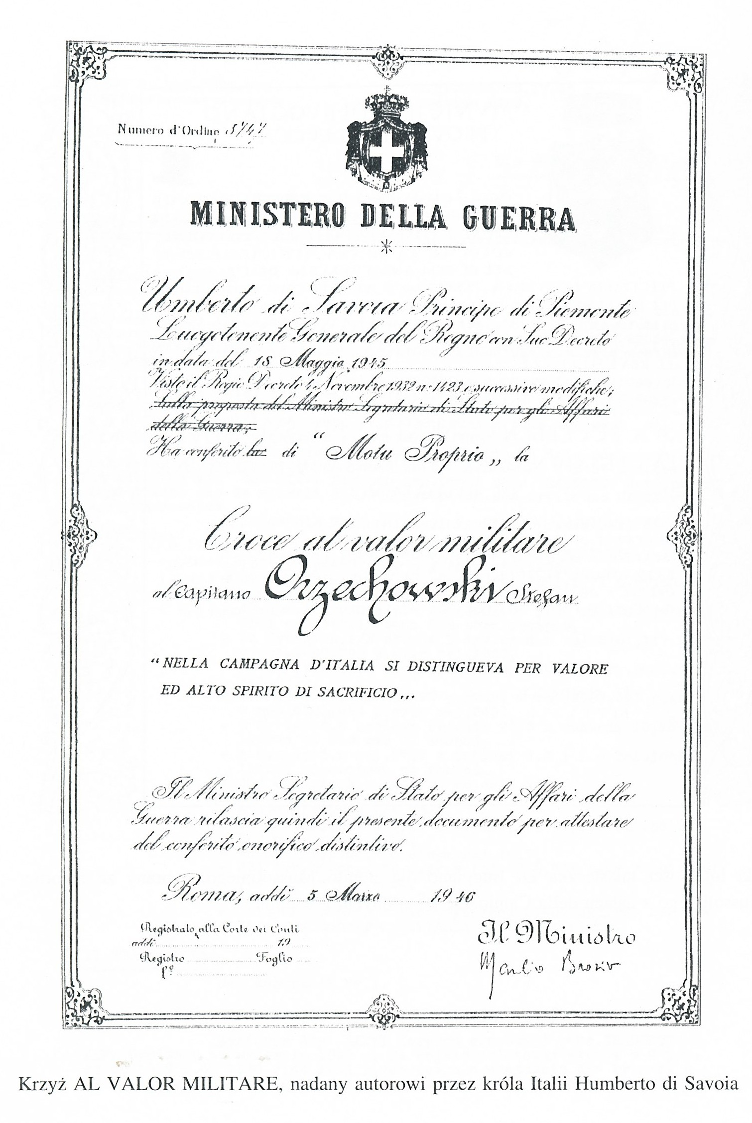 Copy of Stefan Orzechowski Diploma of Italian Medal of Military Valour, 1946